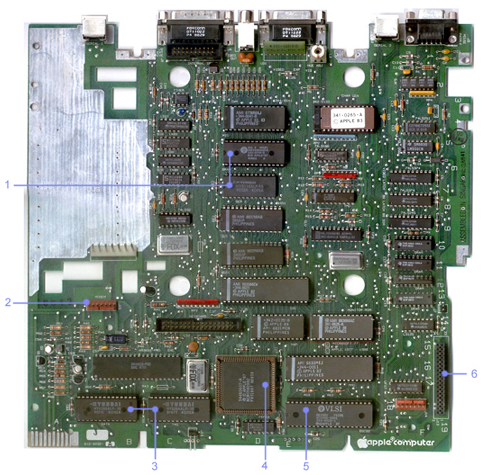 An image of the Apple IIc Plus motherboard, with overlay diagram pointing out new feature components: 1=MIG and supporting SRAM buffer, 2=Internal modem connector, 3=Accelerator cache (TAG and DATA), 4=Accelerator ASIC, 5=CPU (4 MHz 65C02), 6=IIc Plus Memory Expansion connector.